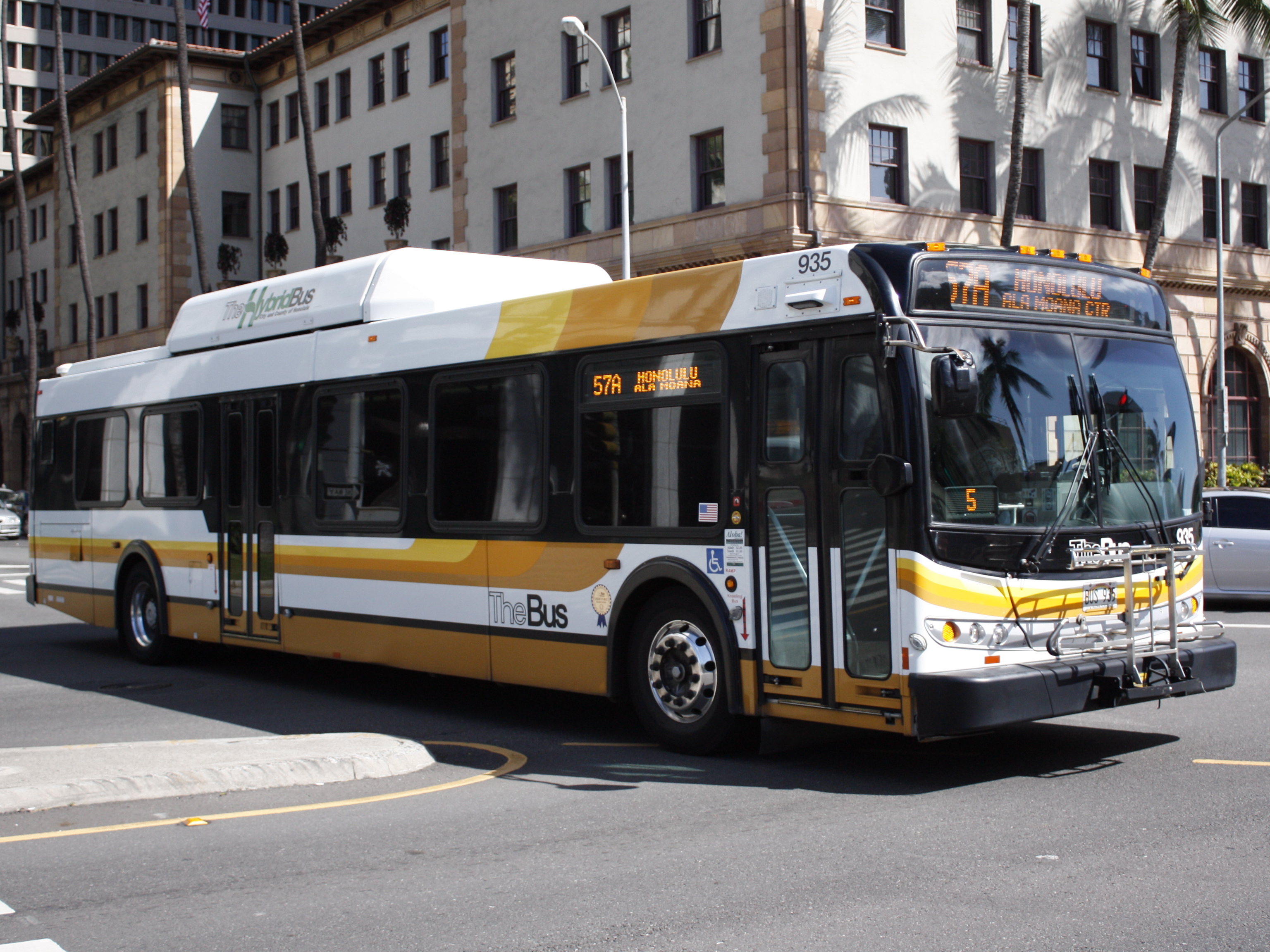 A TheBus New Flyer DE40LFR bus crossing Nimitz Highway on Bishop Street in downtown Honolulu.